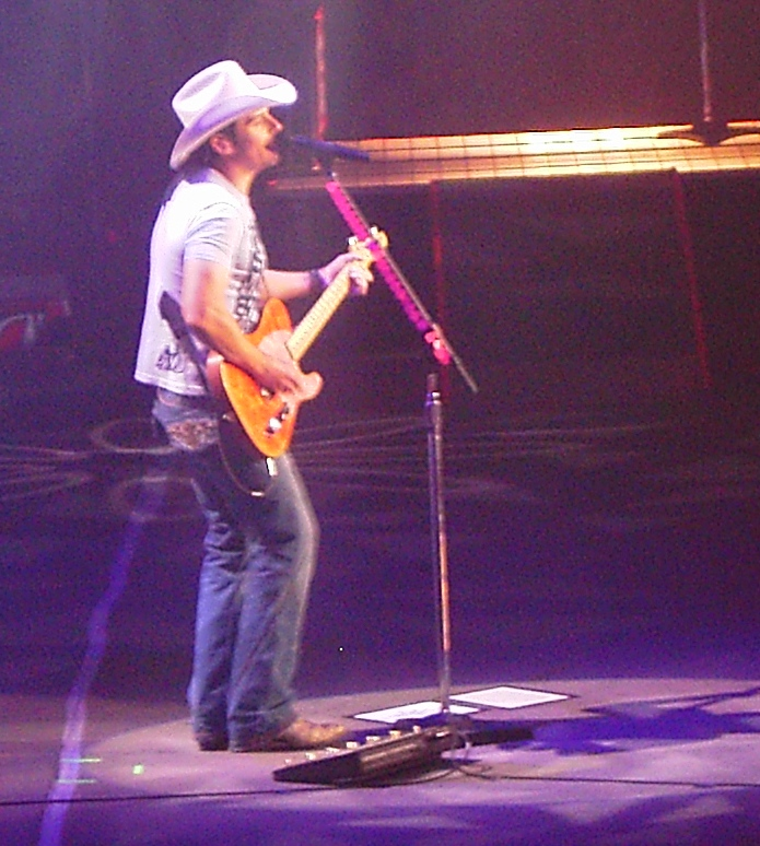 Brad Paisley and Carrie Underwood concert, Colorado Springs World Arena.